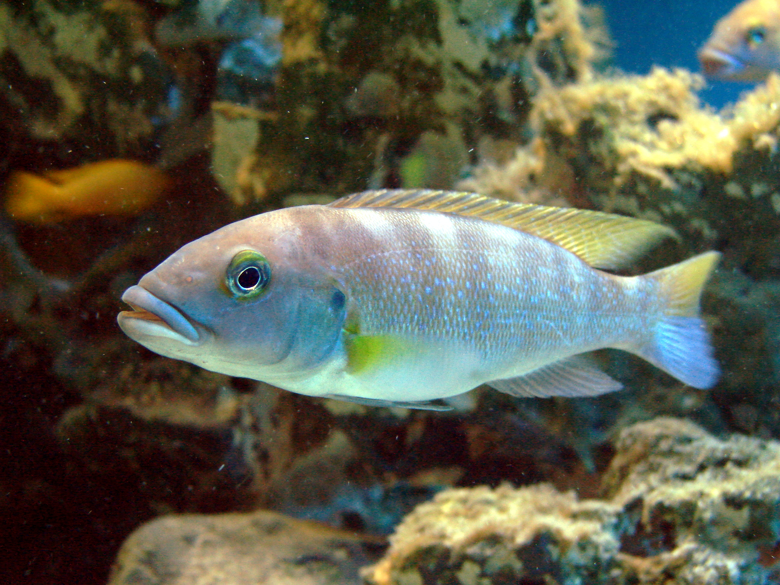 Picture taken in the zoo of Wrocław (Poland): Lepidiolamprologus cunningtoni (Boulenger, 1906)